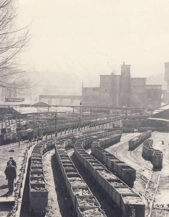 mine in Jiu-Paroșeni